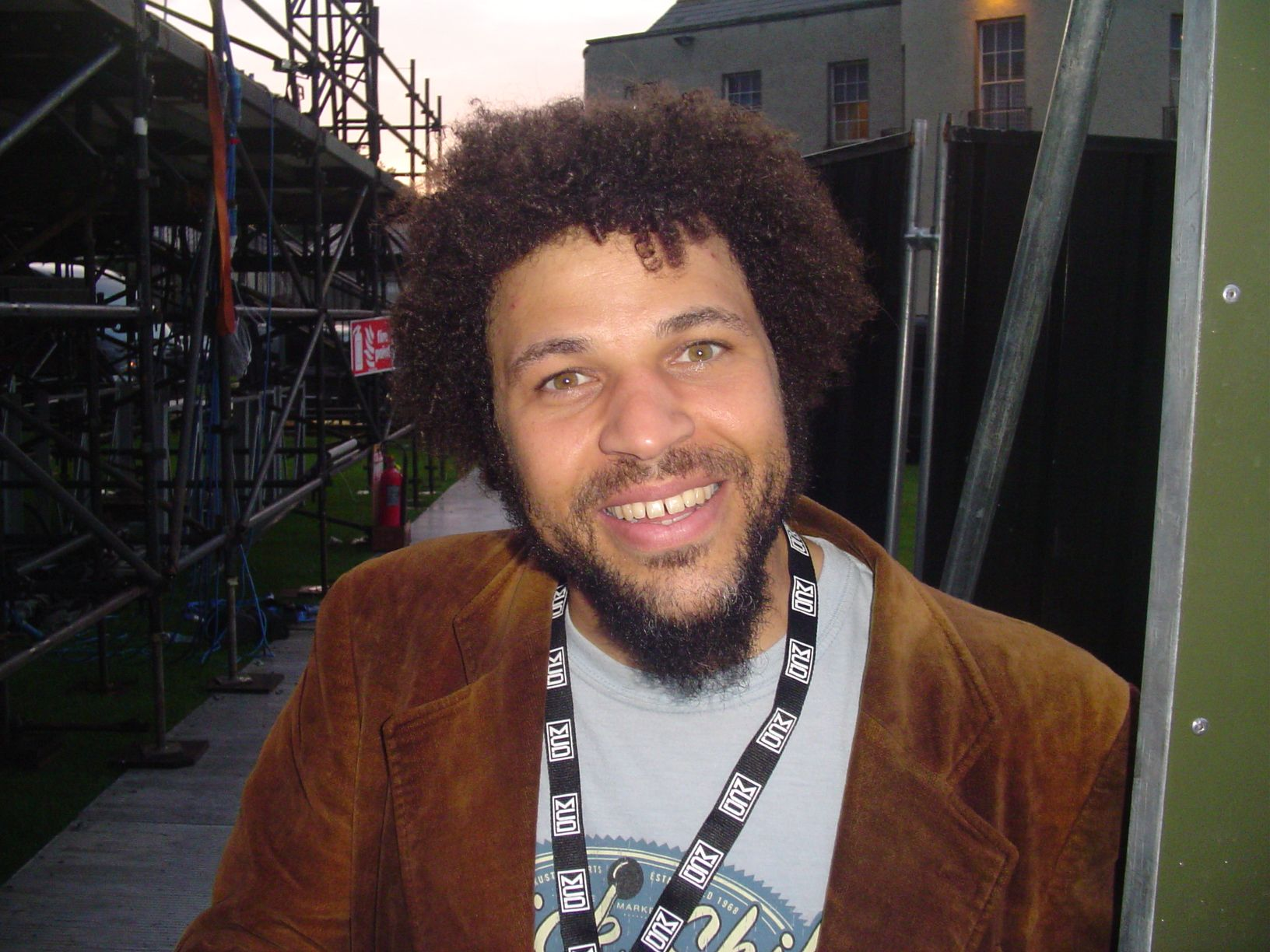 Matt Sherrod, drummer with Crowded House at Marlay Park, Dublin 22 June 2007.